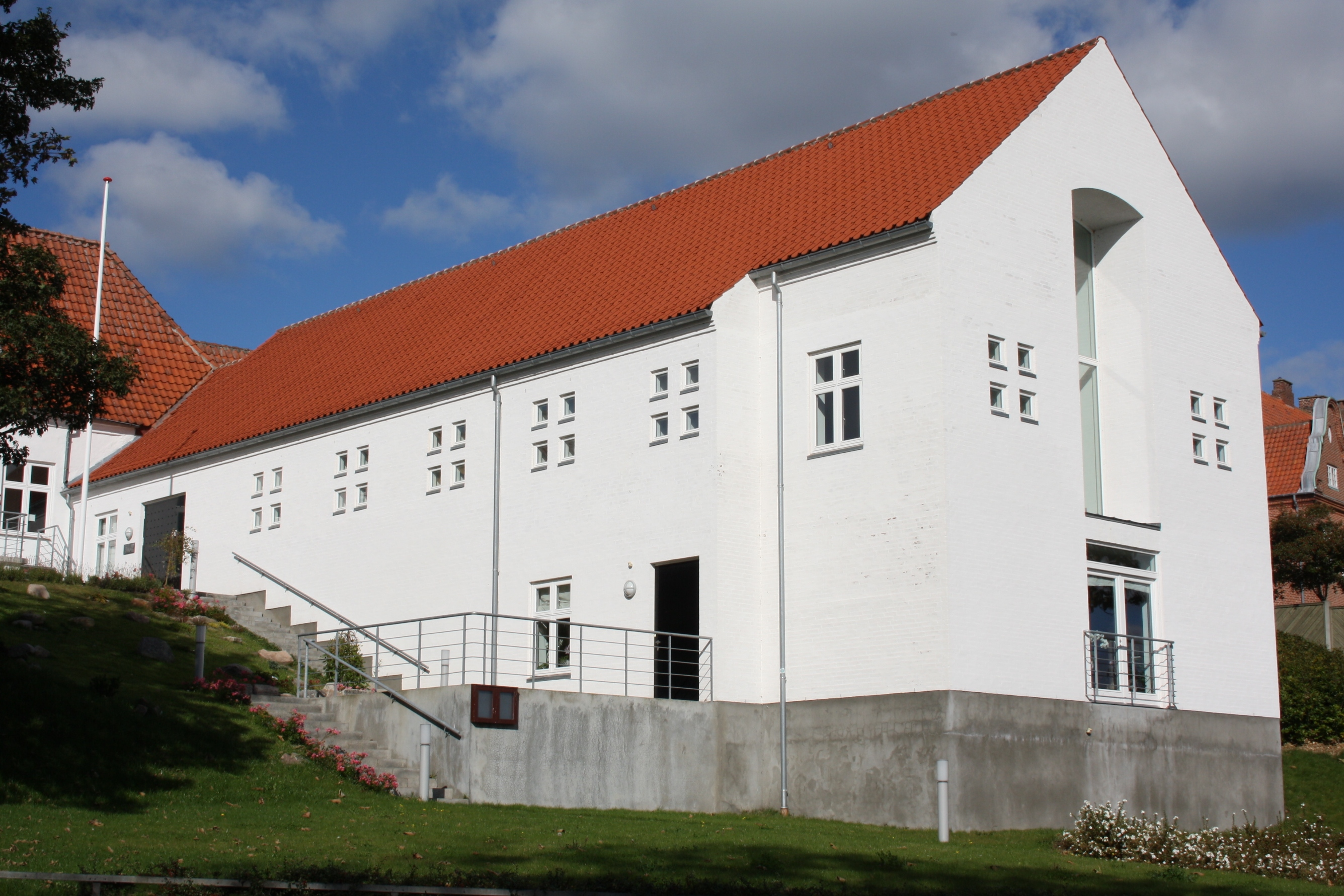 Church of Saint Kjeld (Ketil). Roman Catholic church of Viborg, Denmark.